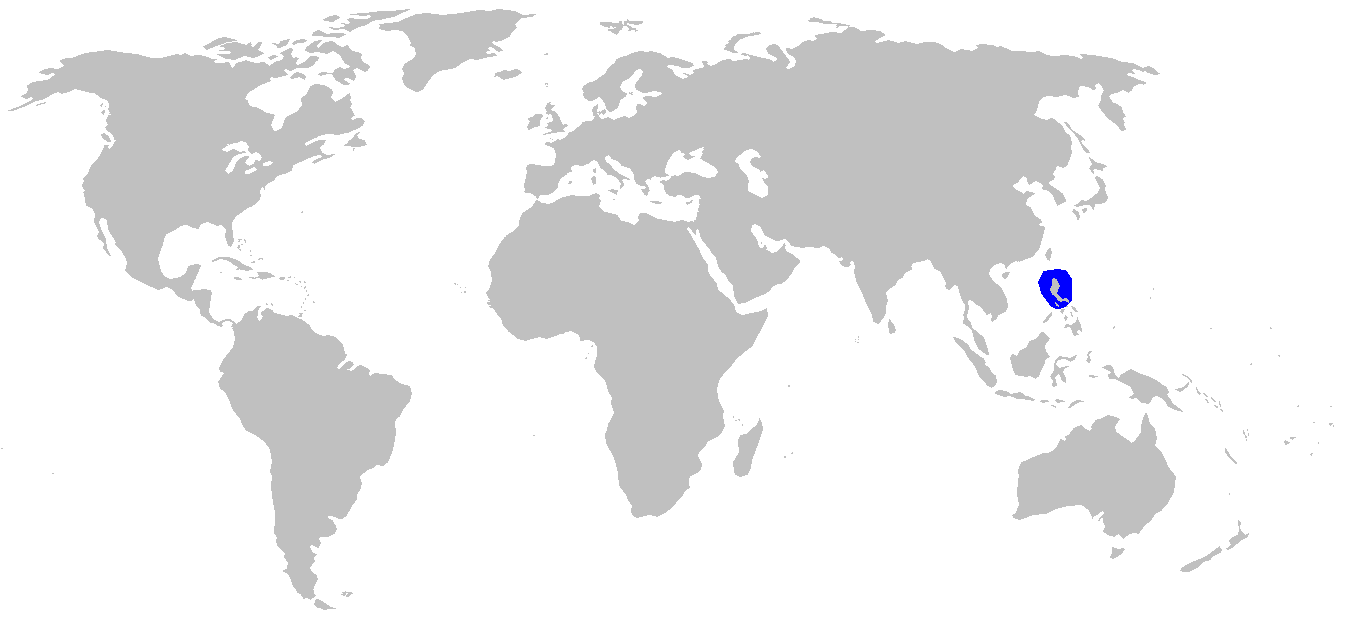 Distribution map for Galeus schultzi